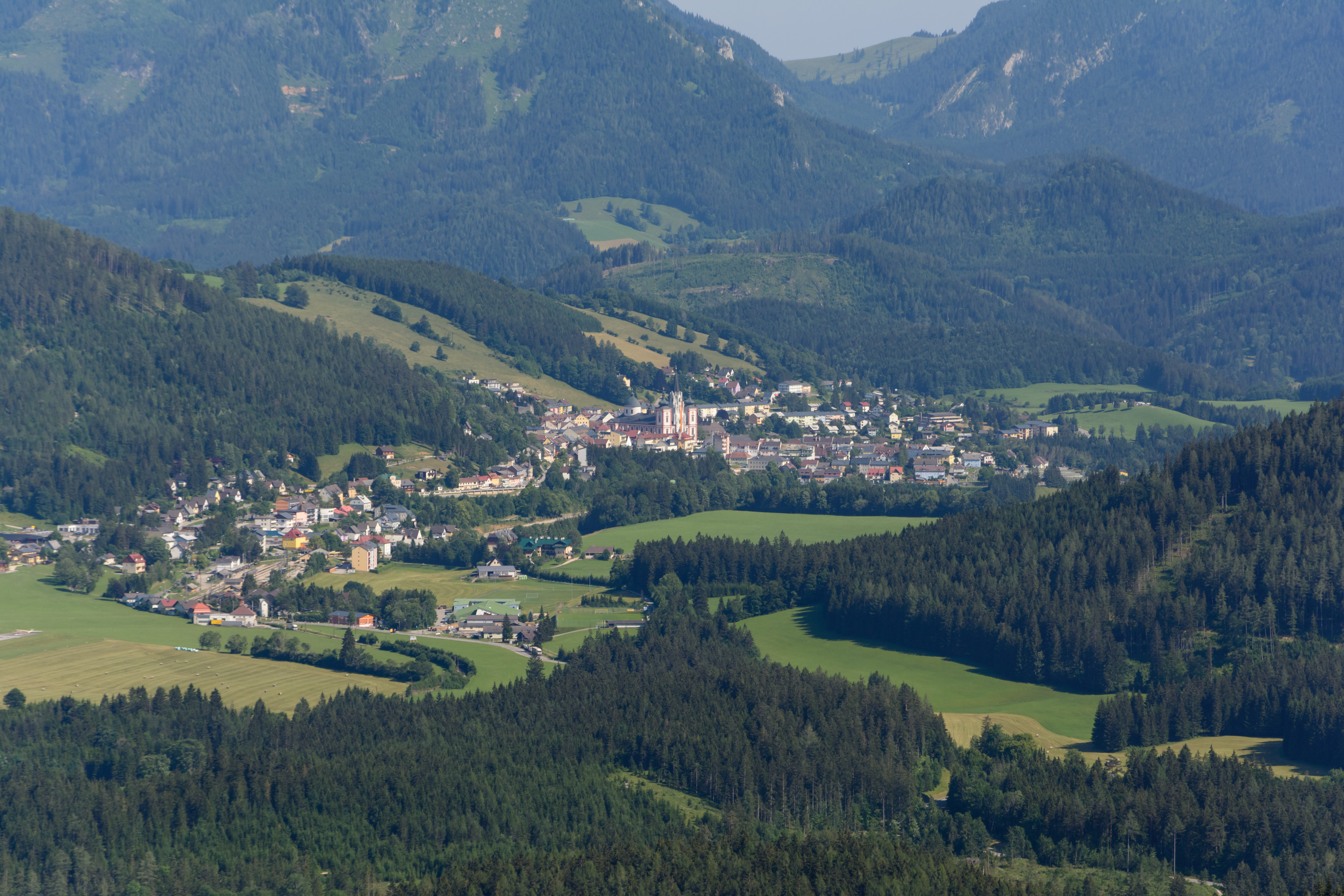 Mariazell, Styria, Austria. View from the Gemeindealpe Mitterbach.